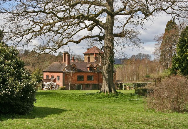 Ramster House and Gardens Ramster House is not open to the public but has a garden which is open.